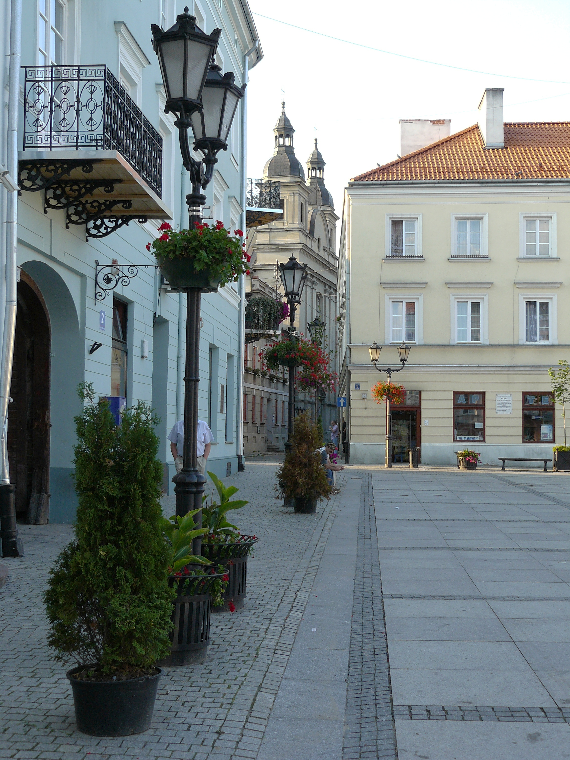 Ewangelic church in old town, Former Pijarski Church as seen from market square.